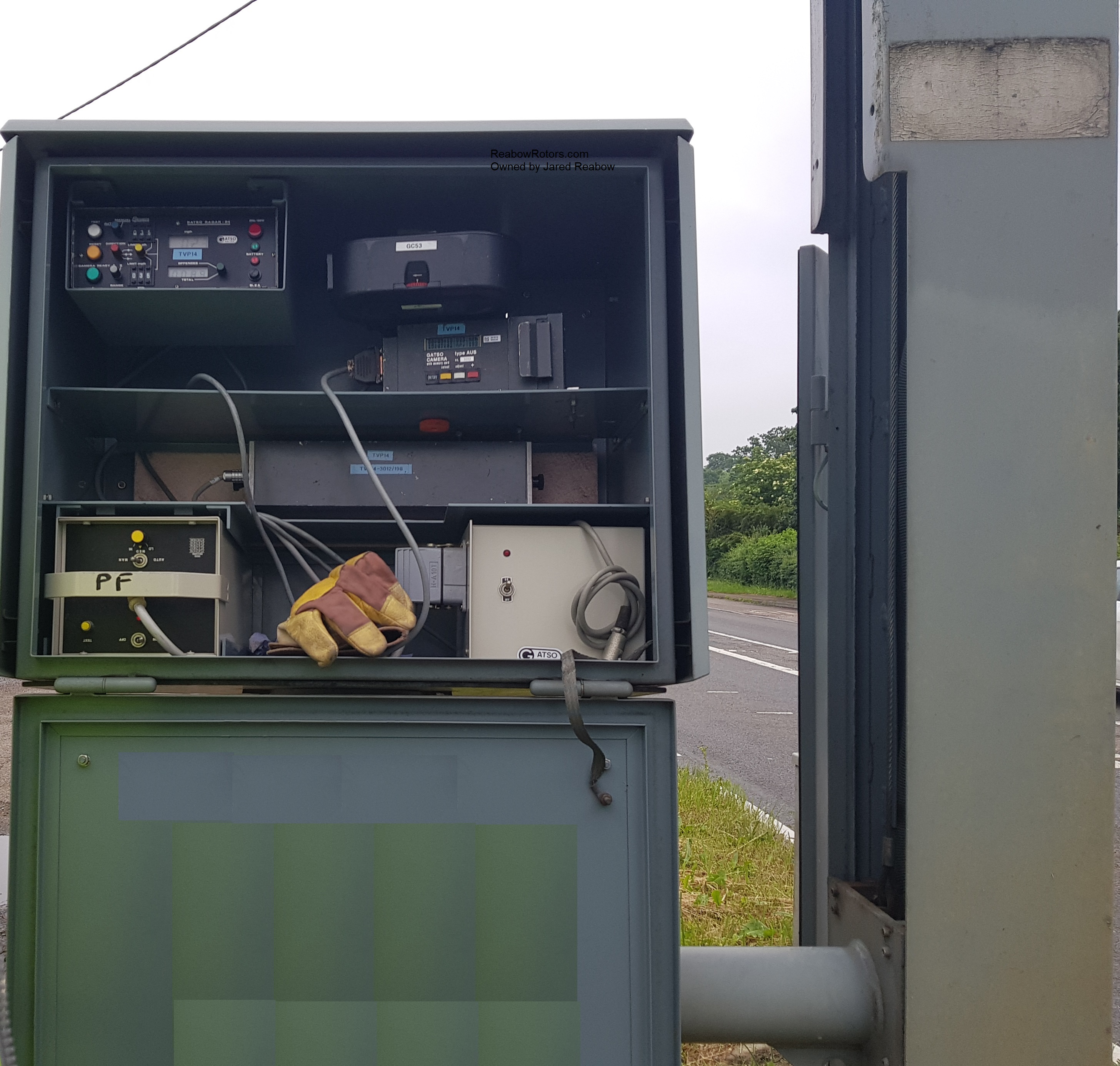 Internals of a Gatso speed camera